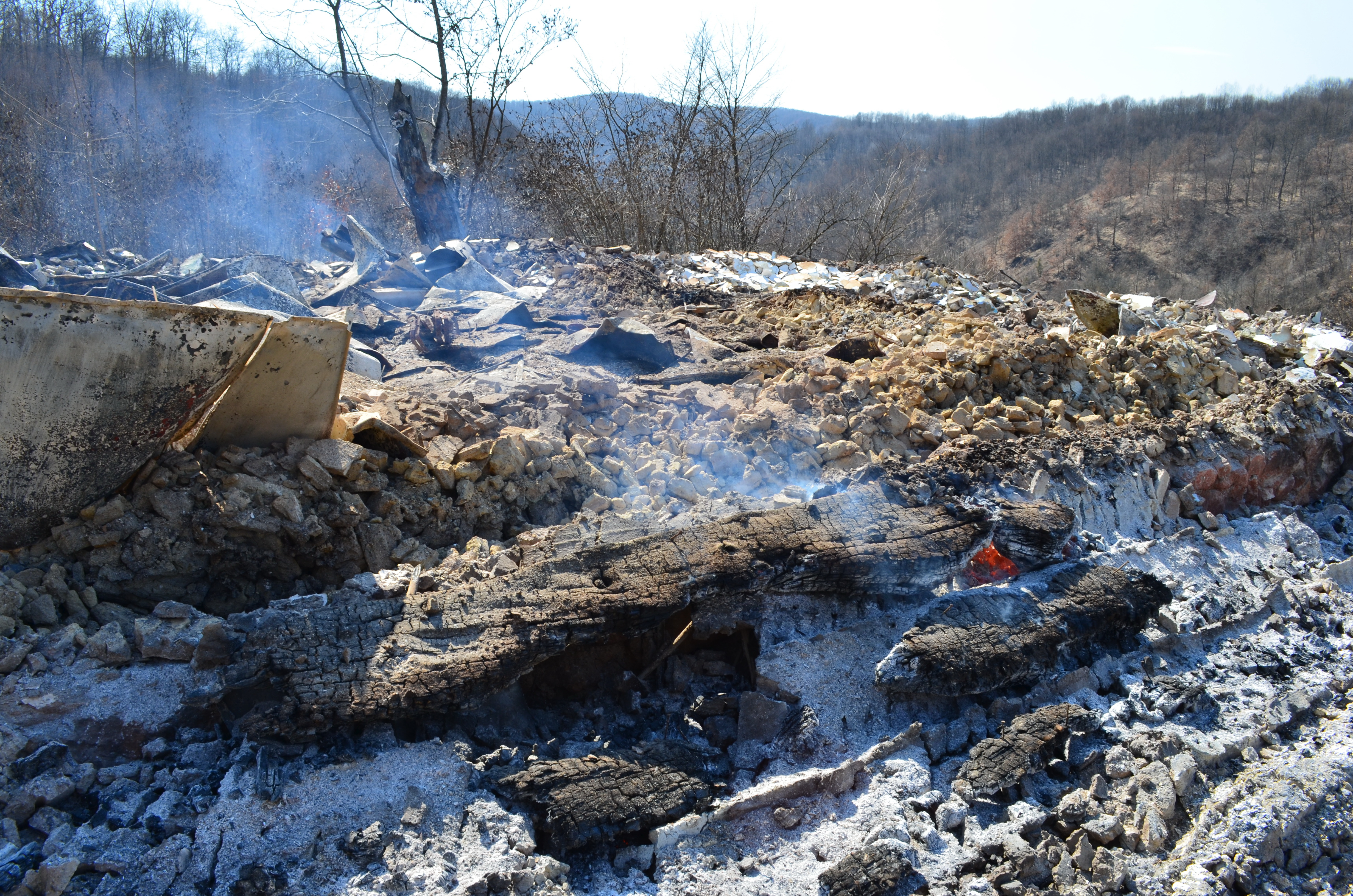 Gialacuta, Hunedoara county, Romania